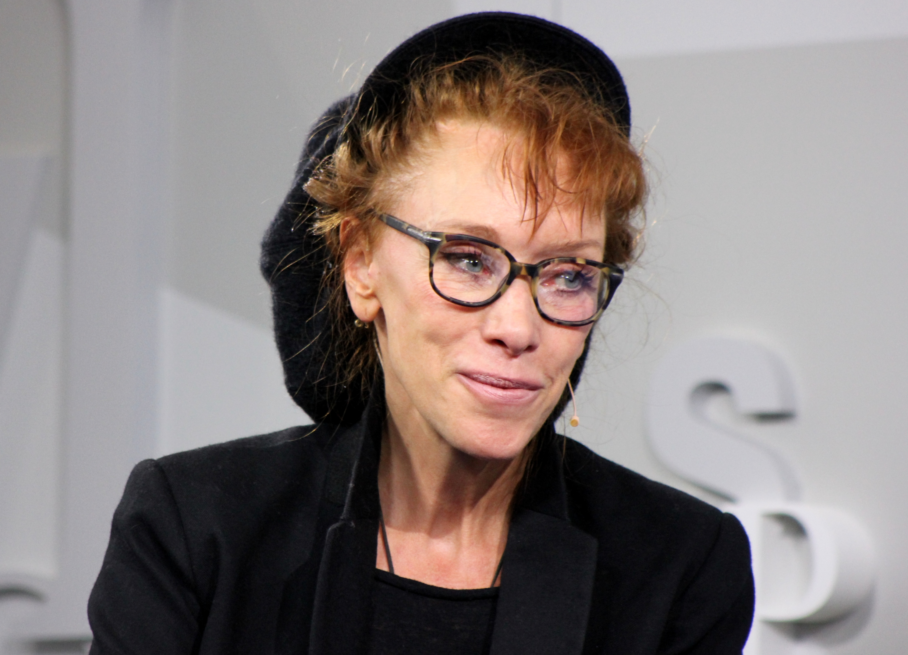 Sibylle Berg, Frankfurt Book Fair 2012